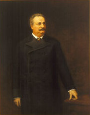 Daniel Manning, former United States Secretary of the Treasury